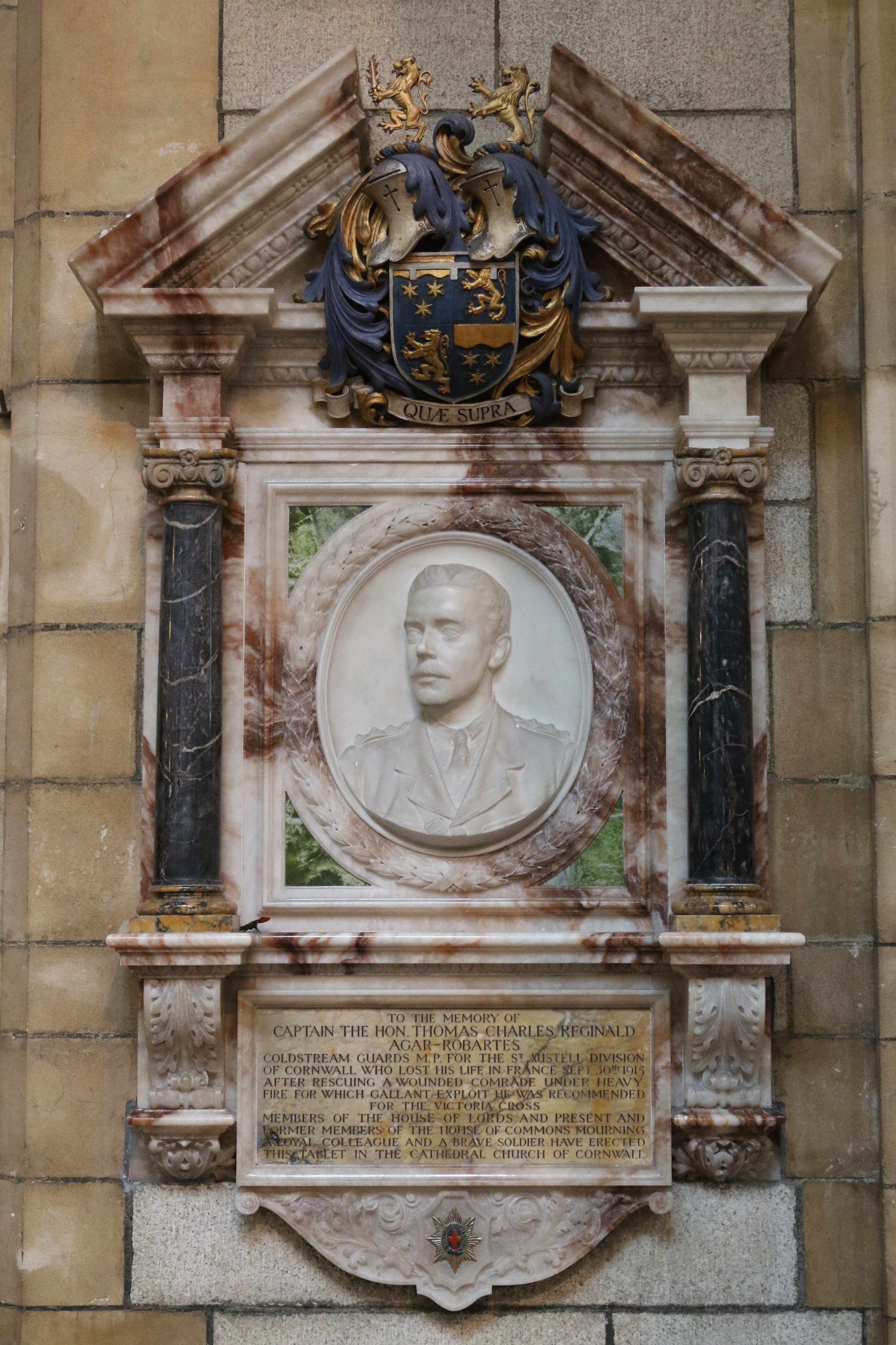 Captain the Hon. Thomas Charles Reginald Agar-Robartes, Coldstream Guards M.P. for the St Austell Division of Cornwall who lost his life in France Sept 30th 1915 after rescuing a wounded comrade under heavy fire for which gallant exploit he was recommended for the Victoria Cross. Members of the House of Lords and present and former members of the House of Commons mourning a loyal colleague and a brave soldier have erected this tablet in the Cathedral Church of Cornwall.